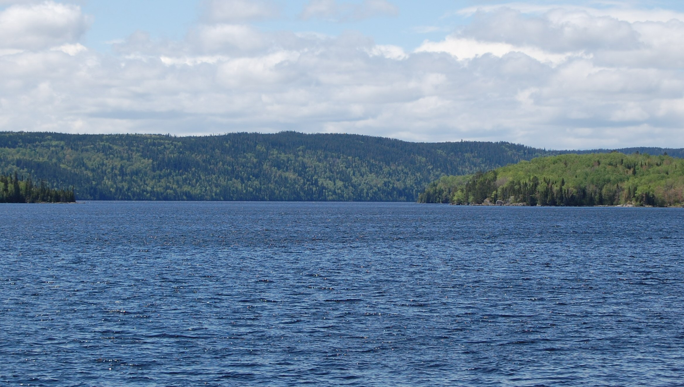 Kenogami lake from Portage-des-Roches